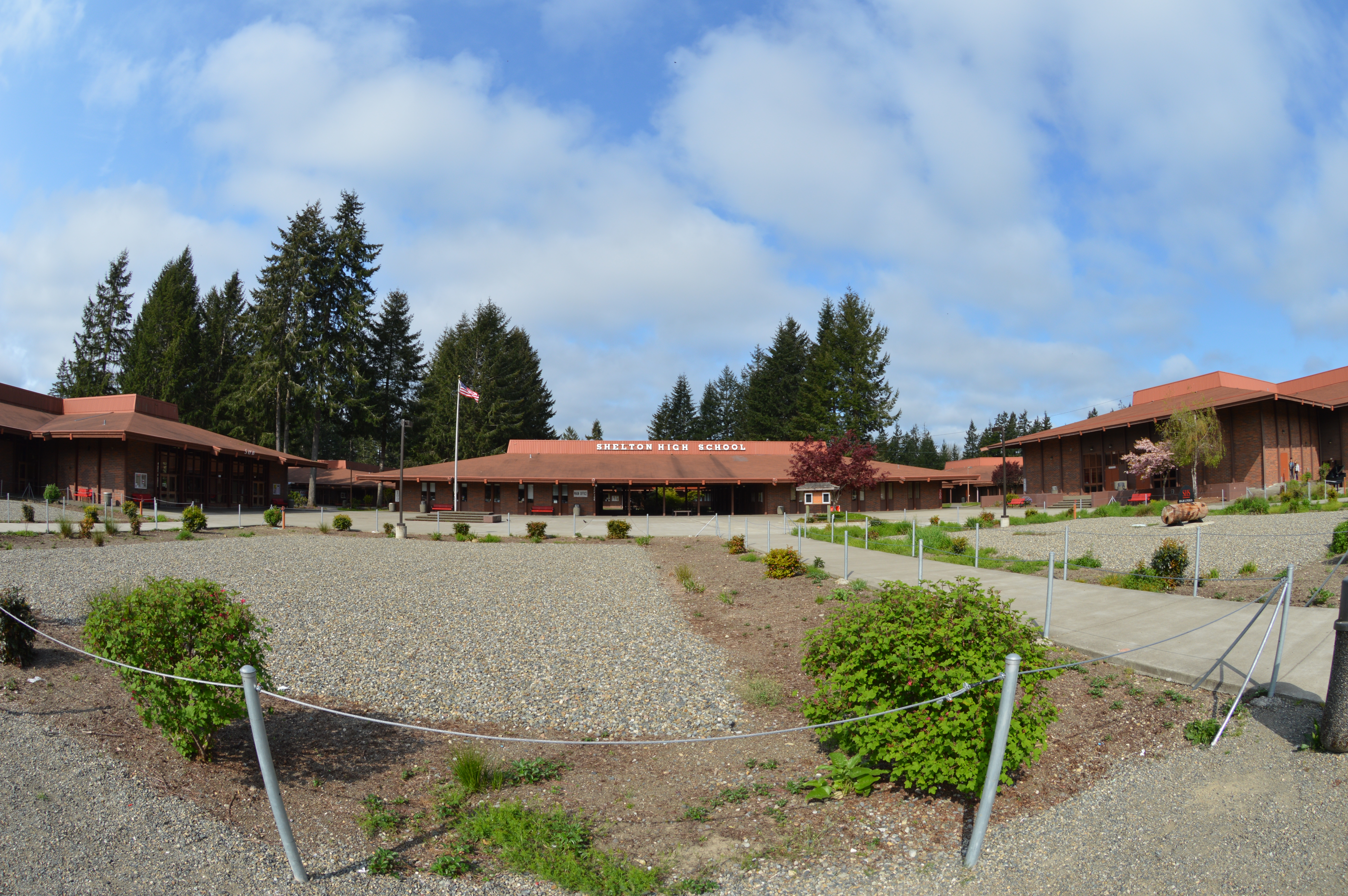 The entrance yard to the main office, cafeteria, and auditorium.